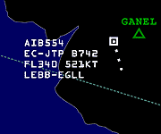 A piece of a fictional radar screen capture of Air Traffic Control work station.We see a coast line, an airway or sector border, GANEL intersection point, and the marker and trail of an airplane. The plane transmits transponder signal, which contains also the altitude and speed, and the work station's computer can construct the full detailed info tag.This tag says that flight Air Iberia 554 is realised this time by a Boeing B747-200, which was registered in Spain as EC-JTP, its altitude is Flight Level 340, speed 521 knots, planned route is from Bilbao to London Heathrow.